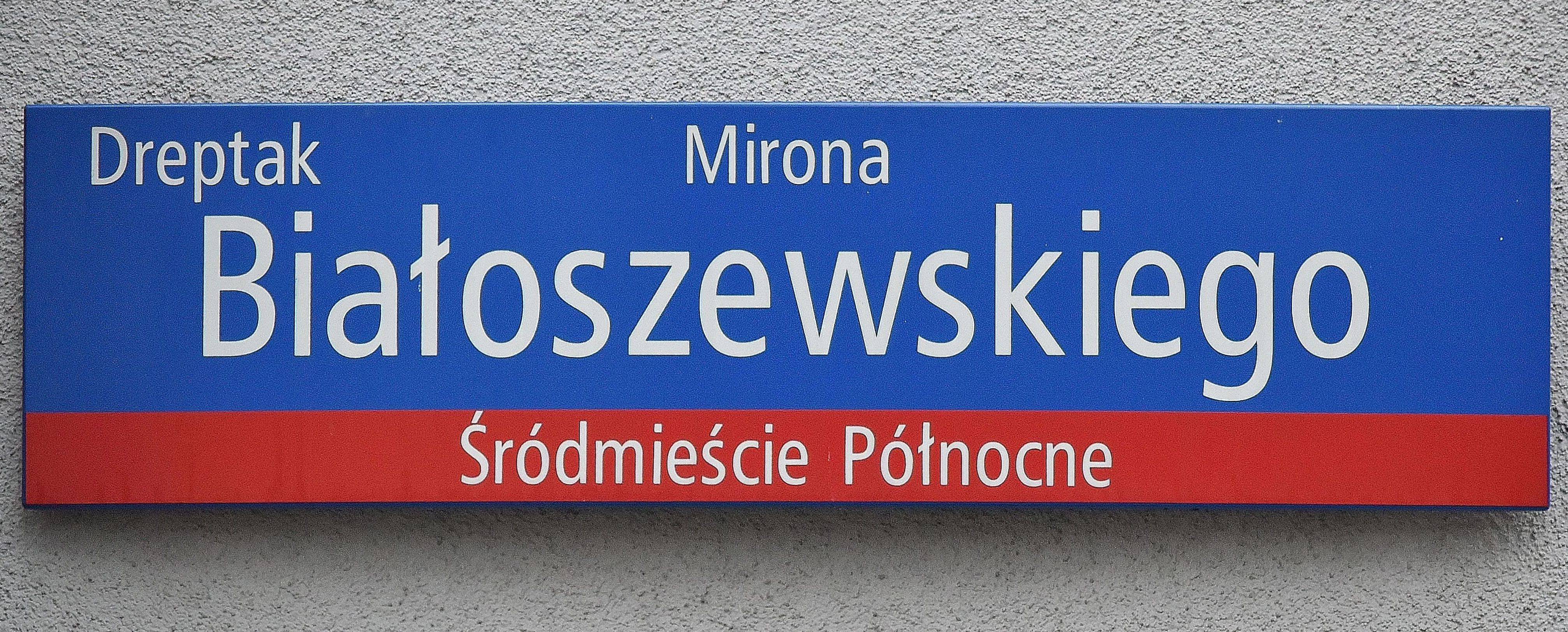 Warsaw City Information street sign Dreptak Mirona Białoszewskiego at 7 Dąbrowski Square in Warsaw